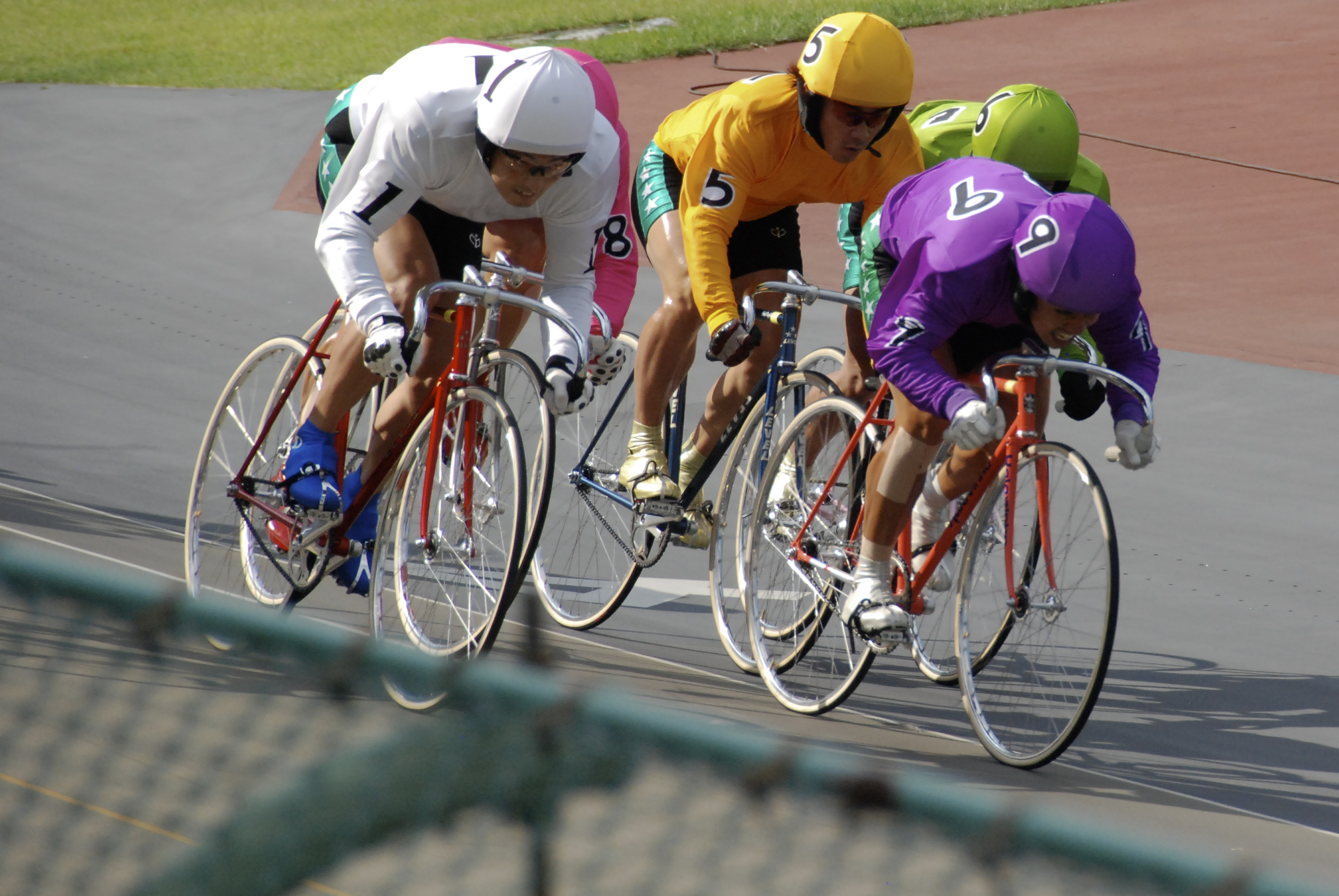 racers sprinting to the finish line in the last lap of a keirin race on the omiya velodrome in the tokyo metropolitan area